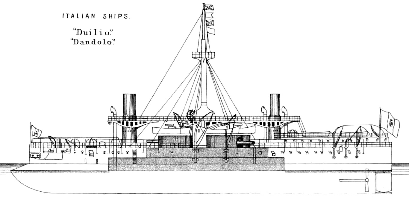 Left elevation of Italian Caio Duilio class ironclad battleship, showing protection of main guns.